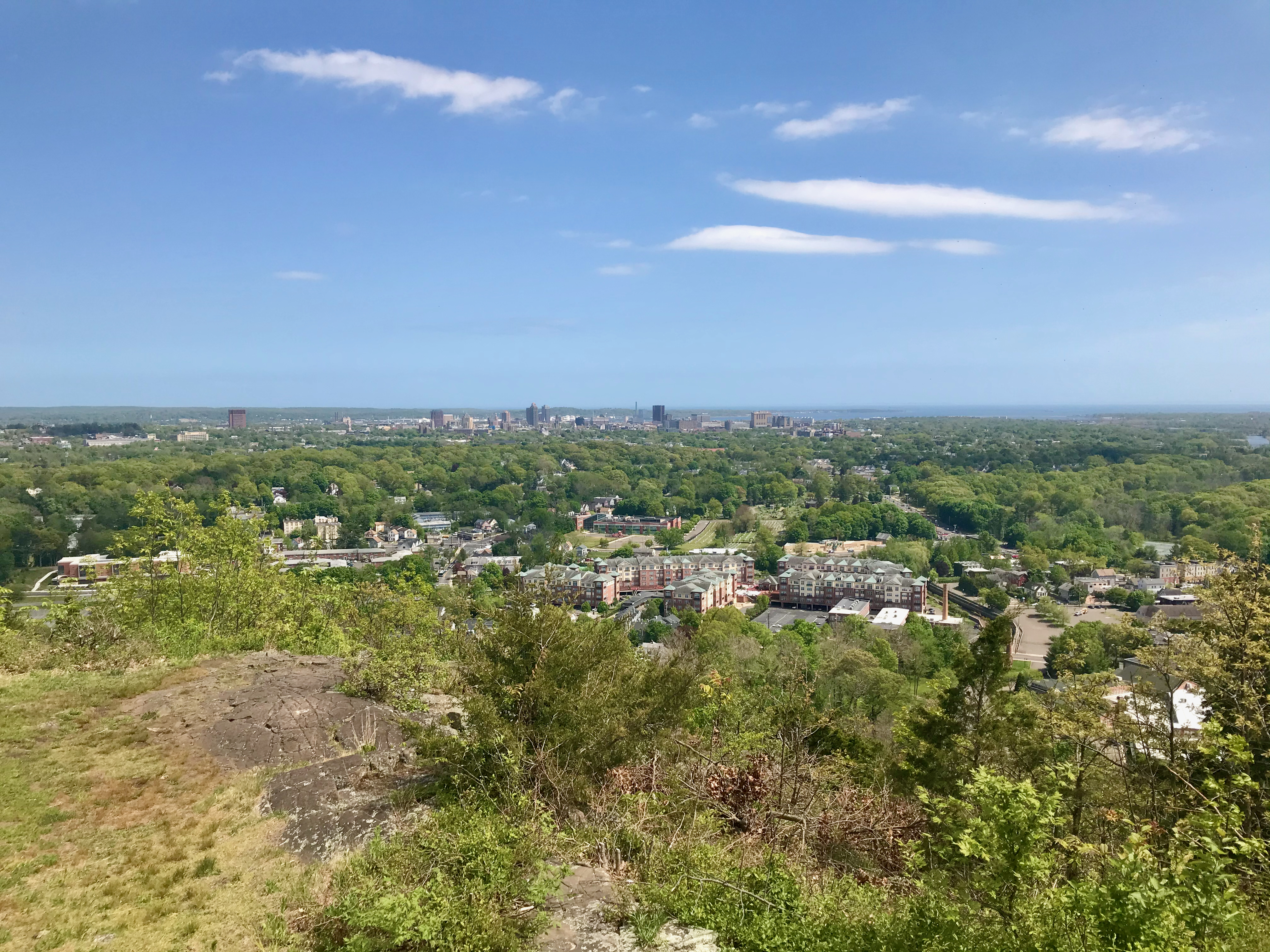 Panorama of the New Haven skyline, including New Haven Harbor, from the south overlook atop West Rock in the West Rock Ridge State Park, Connecticut